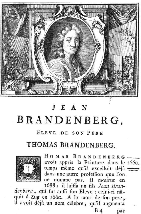 The Lives of Flemish, German, and Dutch painters, Volume IV, p.23 Johannes Brandenberg (1660–1729) Painter biographies by John-Baptist Descamps, comprising four volumes, 1753-1764